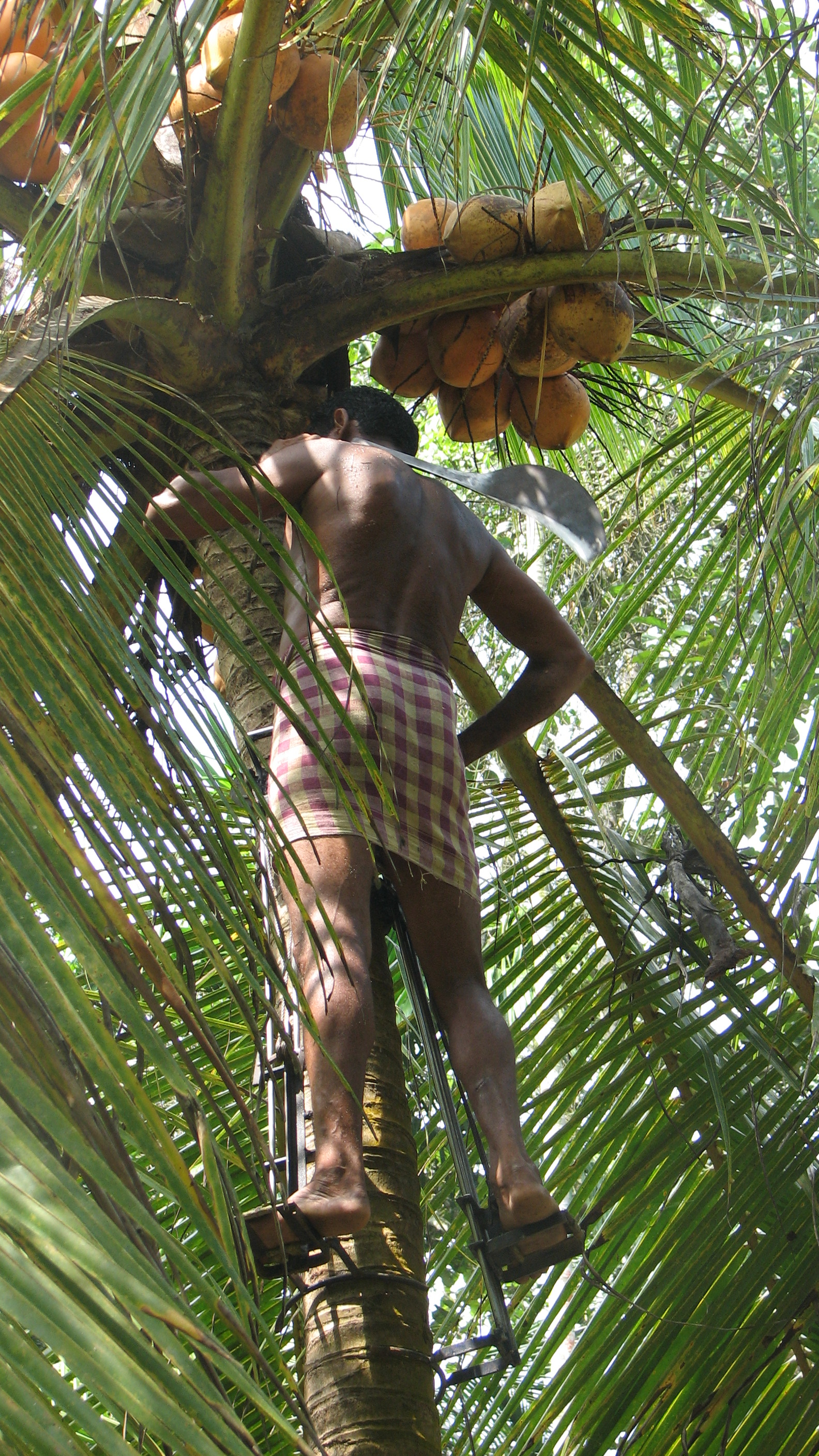 A coconut harvester (Raghavan), near Chirakkadavu, Kanjirappally. Coconut climbing tool also visible.